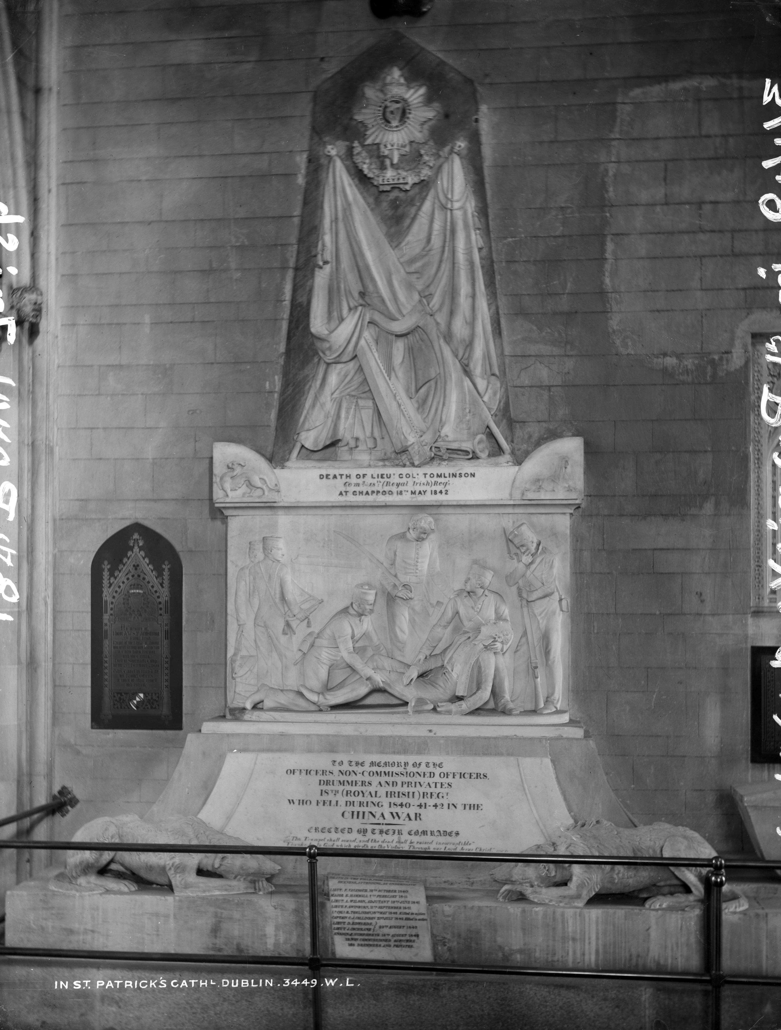 Royal Irish Regiment memorial in St. Patrick's Cathedral, Dublin. Leaving this one quite large to help any of you who want to find out more about any of the named combatants "who fell during 1840 - 41 - 42 in the China War"... Photographer: Almost certainly Robert French of Lawrence Photographic Studios , Dublin Date: 1900?? (definitely before 1911 - thanks beachcomberaustralia) NLI Ref.: L_ROY_03449